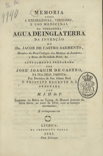 Cover of a guide on the "excellence, virtues and medicinal use" of Agua de Inglaterra, published in 1828.